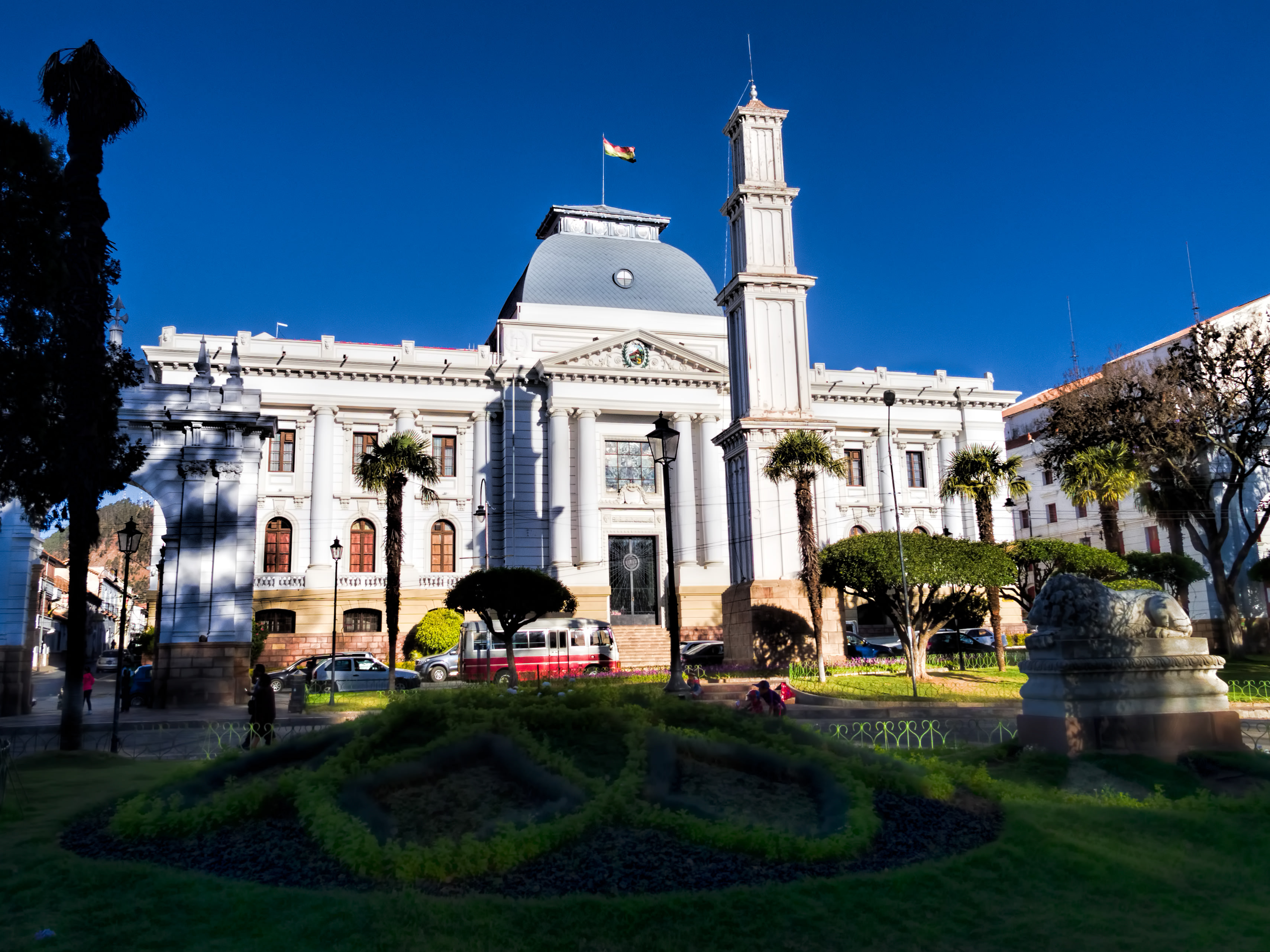 The Supreme Court building, inaugurated in 1945, faces Bolívar Park (Parque Bolívar). Sucre is known as “The White City” because most of the buildings are painted white—and usually have a roof of terracotta tiles. Sucre (elev. 2,810m/9,214ft) was founded by the Spanish in 1538 as Ciudad de la Plata de la Nueva Toledo (Silver City of New Toledo). It became the judicial, religious, and cultural center of the region. Bolivia achieved independence from Spain on 6 August 1825, the last country in Latin America to do so. In 1839 the city was declared the capital of Bolivia and renamed in honor of Antonio José de Sucre (1795-1830), a leader of the fight for independence who was a close friend of Simón Bolívar and served as the second president of Bolivia from the end of 1825 to 1828. (The administrative capital of Bolivia shifted to La Paz in 1898.) The Historic City of Sucre was declared a UNESCO World Heritage Site in 1991. On Google Earth: Supreme Court 19° 2'36.16"S, 65°15'46.58"W